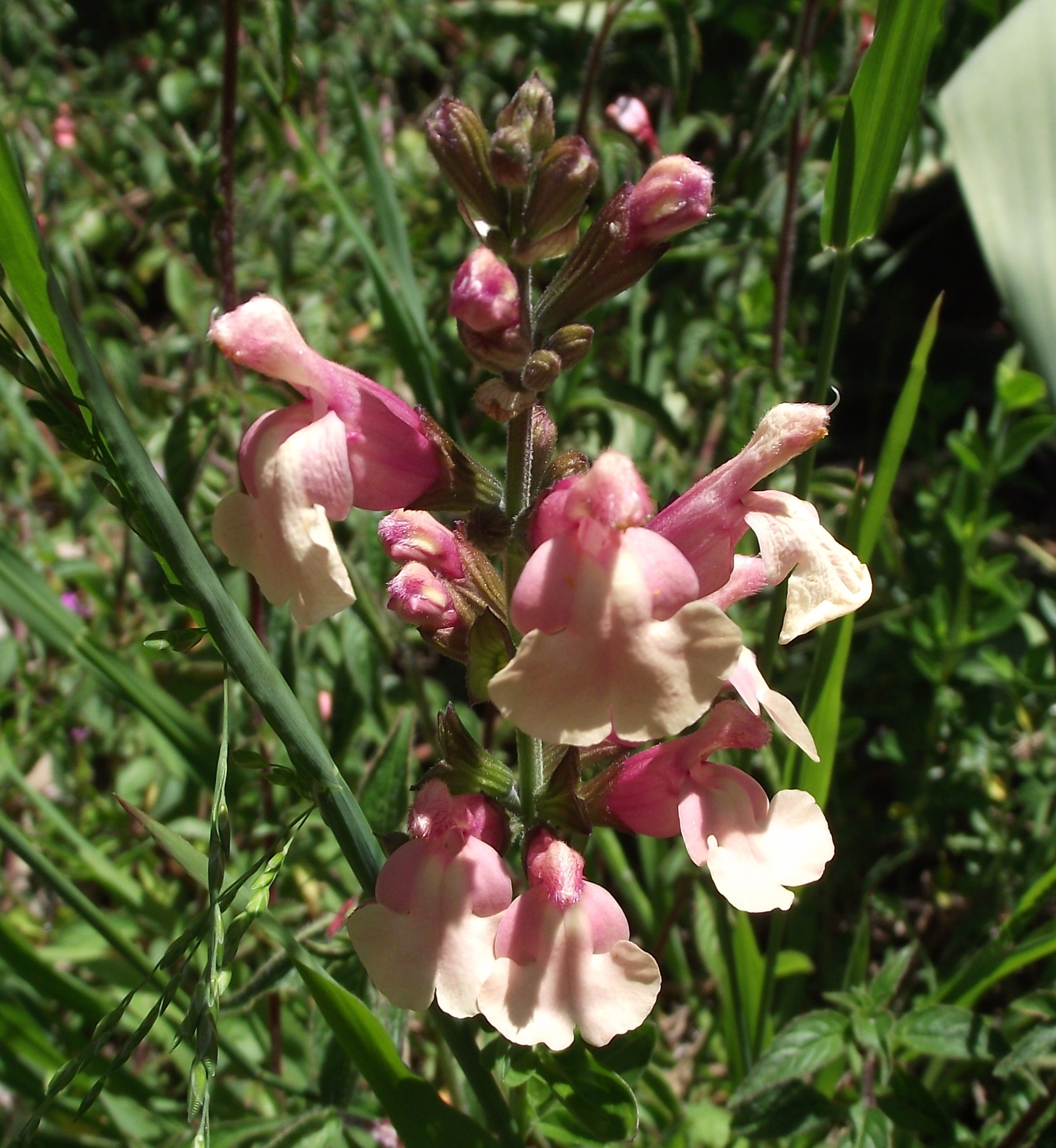 Salvia jamensis 'Sierra San Antonio Gold' in the UC Botanical Garden, Berkeley, California, USA. Identified by sign.